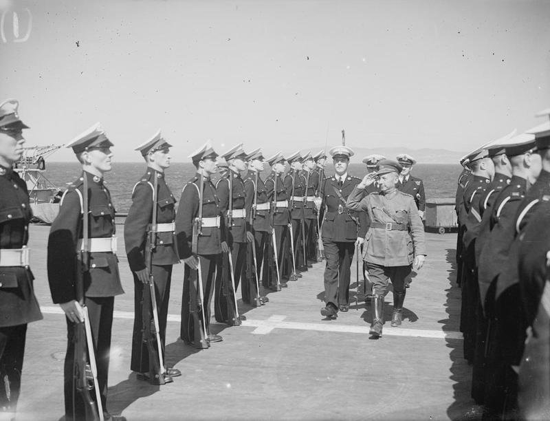 Turkish Military Mission With Western Mediterranean Fleet. 9 April 1943, on Board HMS Formidable, the Turkish Military Mission; Led by General Salih Omurtag and Consisting of 18 Senior Turkish Army and Air Force Officers Which Has Been Touring Egypt and Western Desert and North Africa Paid a Visit To Men and Ships of the Western Mediterranean Fleet. General Salih Omurtag, leader of the Mission, inspecting Royal Marines on the aircraft carrier HMS FORMIDABLE.